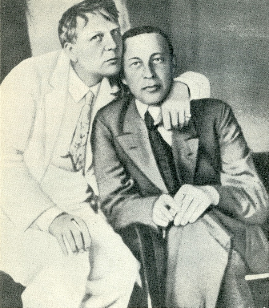 Russian bass, Feodor Chaliapin (1873 - 1938)